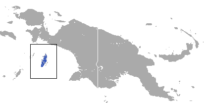 Aru Flying Fox (Pteropus aruensis) range